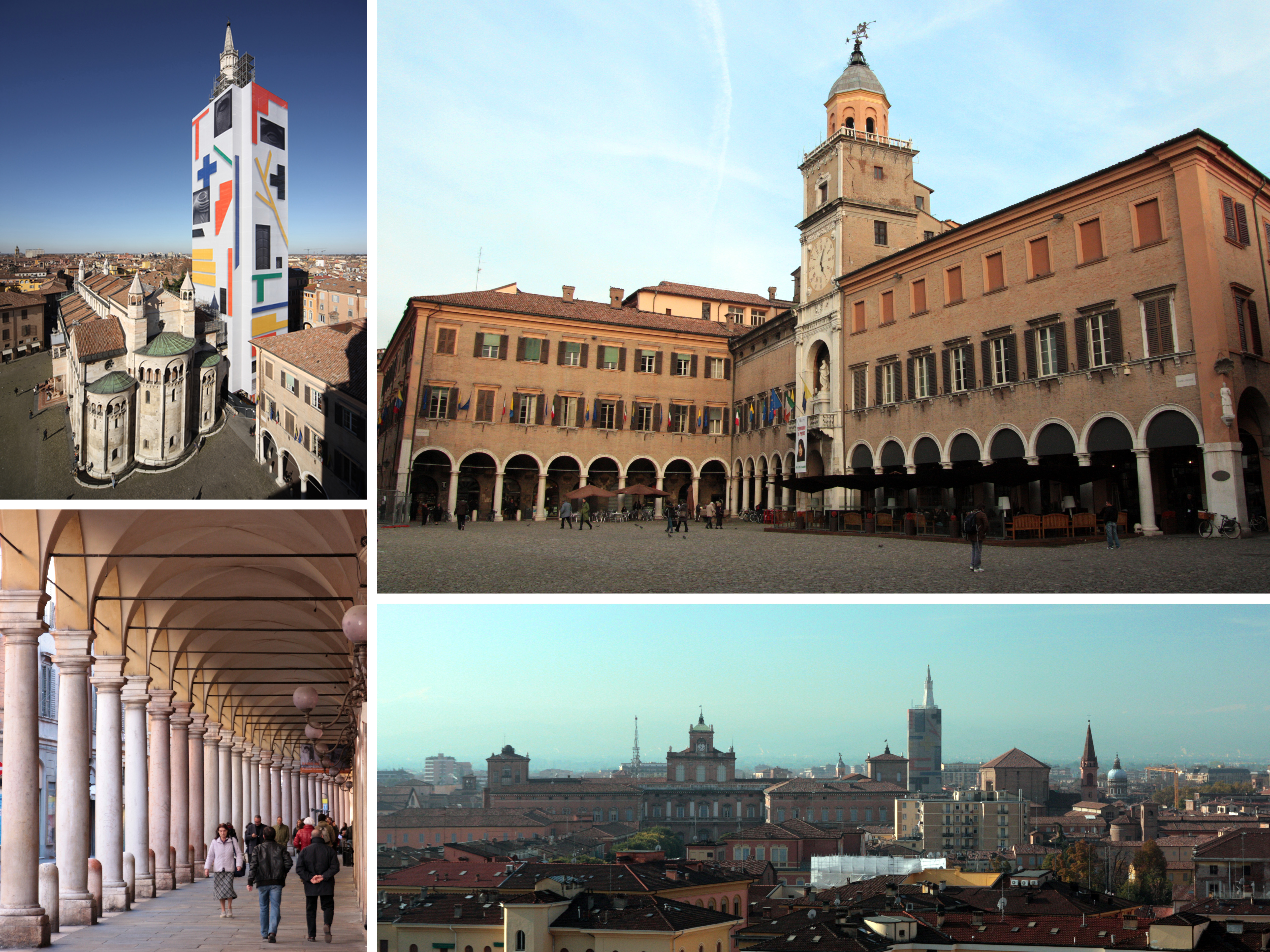 Some views of the town of Modena. From the upper left corner clockwise: the Cathedral and Ghirlandina tower, Palazzo Comunale, panorama of the town, a characteristic portico. The photos have been taken in 2010 by a team working for the Municipality of Modena.